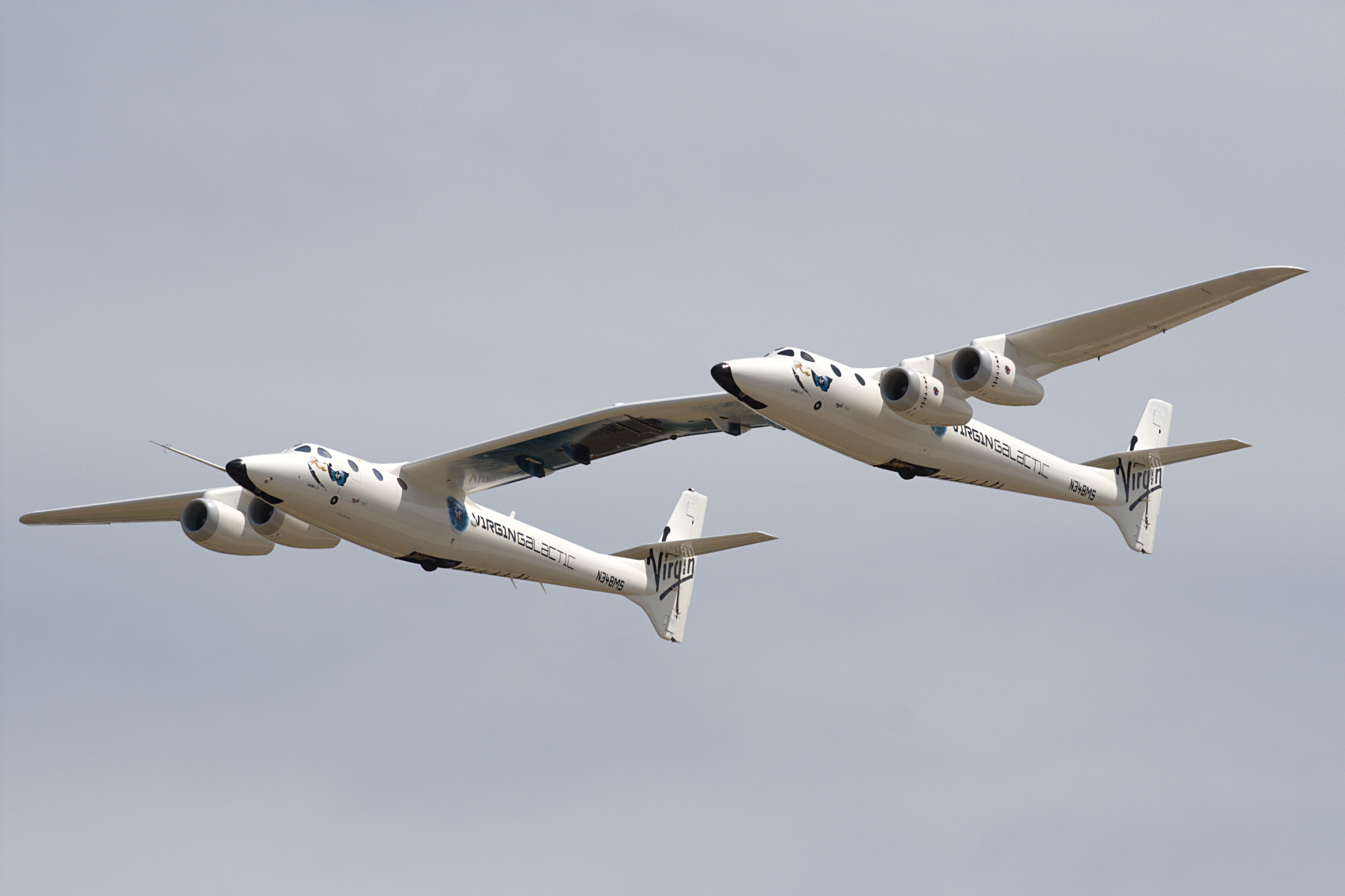 White Knight Two